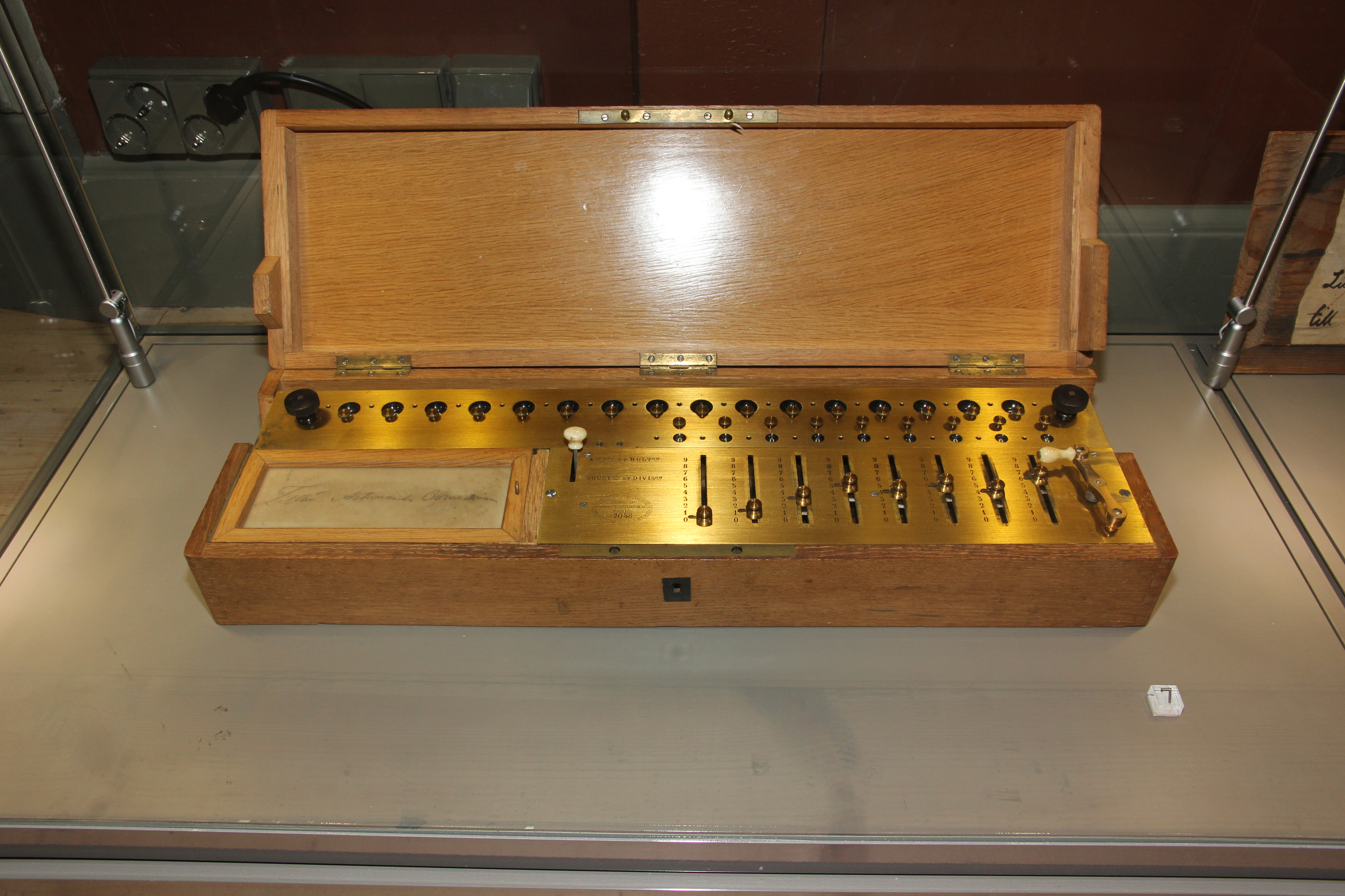 Thomas de Colmar arithmometer from 1860 in Helsinki observatory.